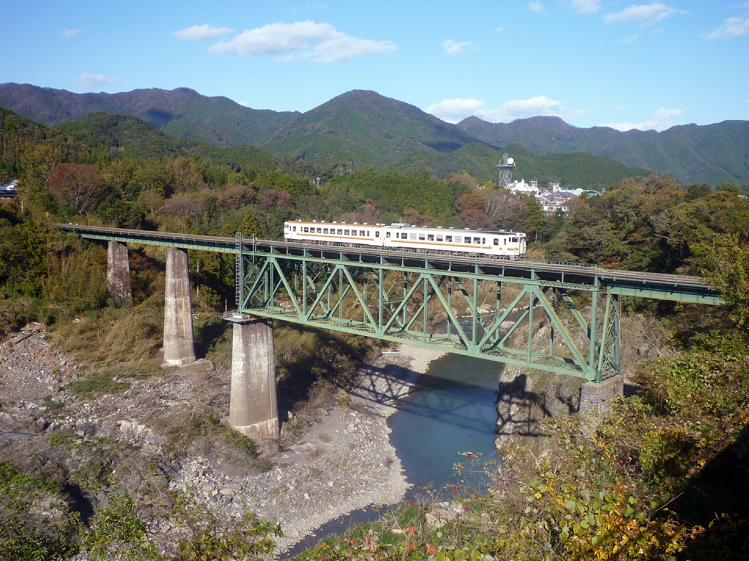 JR Central Kisei Main Line Miyagawa Rail Bridge in Ōdai, Taki District, Mie, Japan.